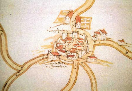 Ancient Volpaia map